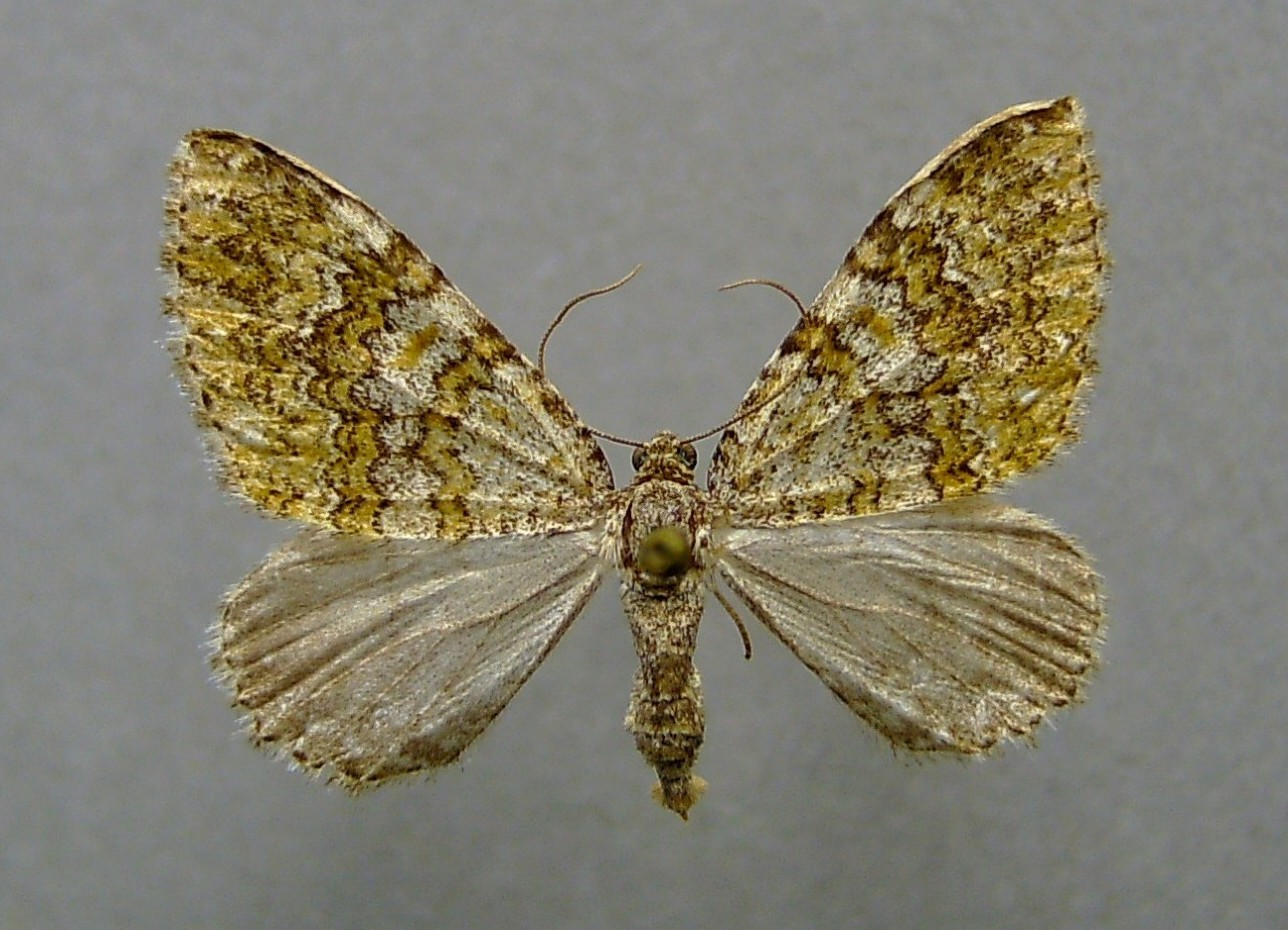 Euphyia frustata, Monte Baldo Italy